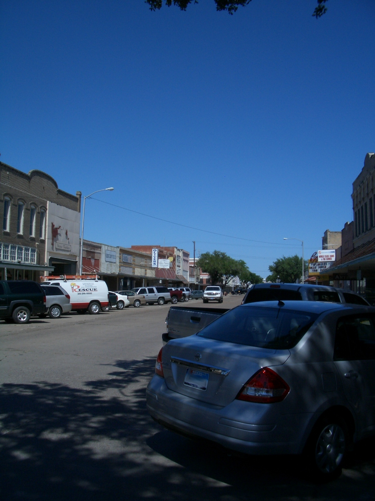 Downtown Kingsville